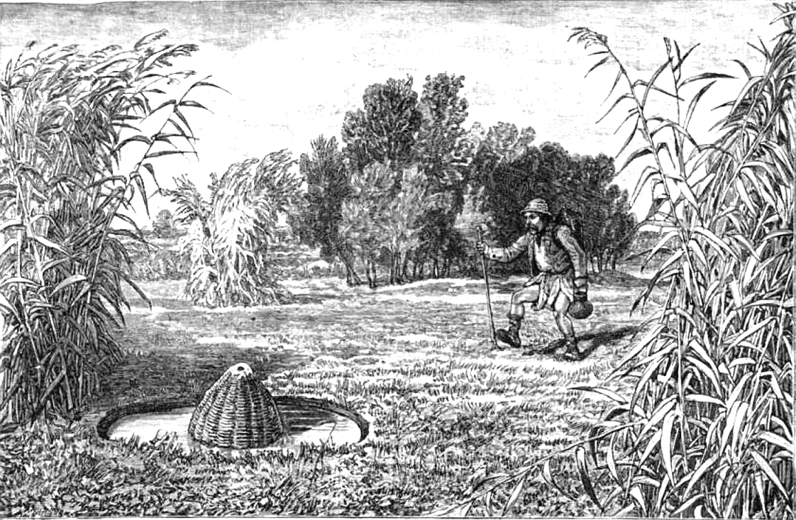 Fisherman in Hungary, meshing Misgurnus fossilis, Hungary, near Nagyecsed